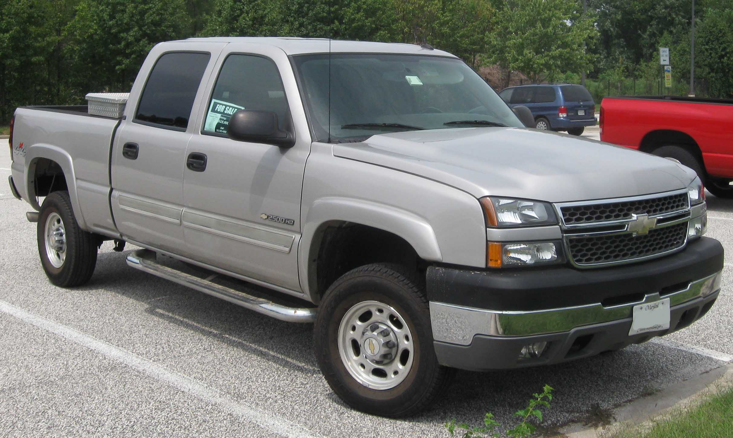 2005 Chevrolet Silverado photographed in Fort Washington, Maryland, USA.